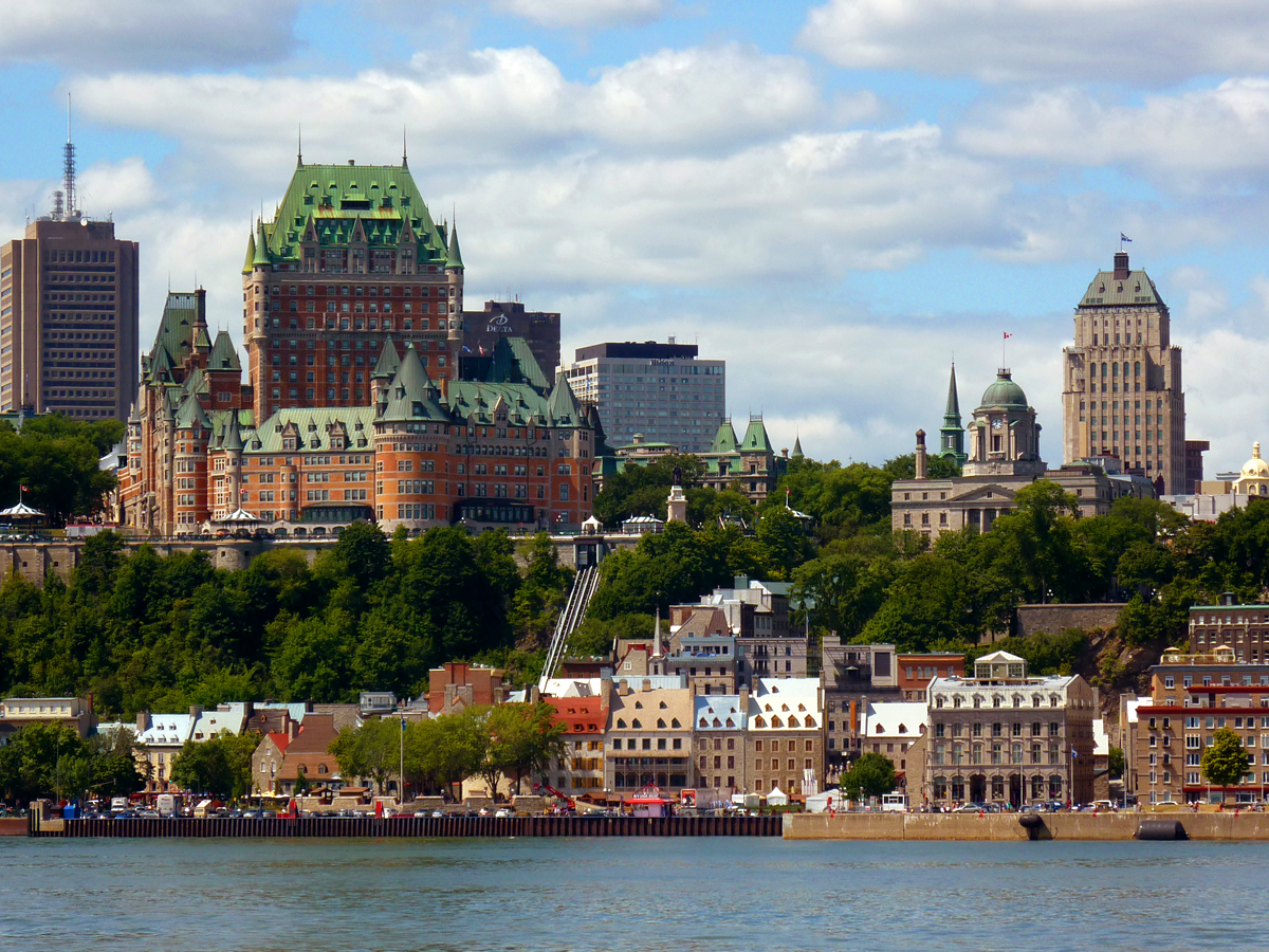 Quebec City View / Le Chateau Frontenac , Quebec (QC) Canada.